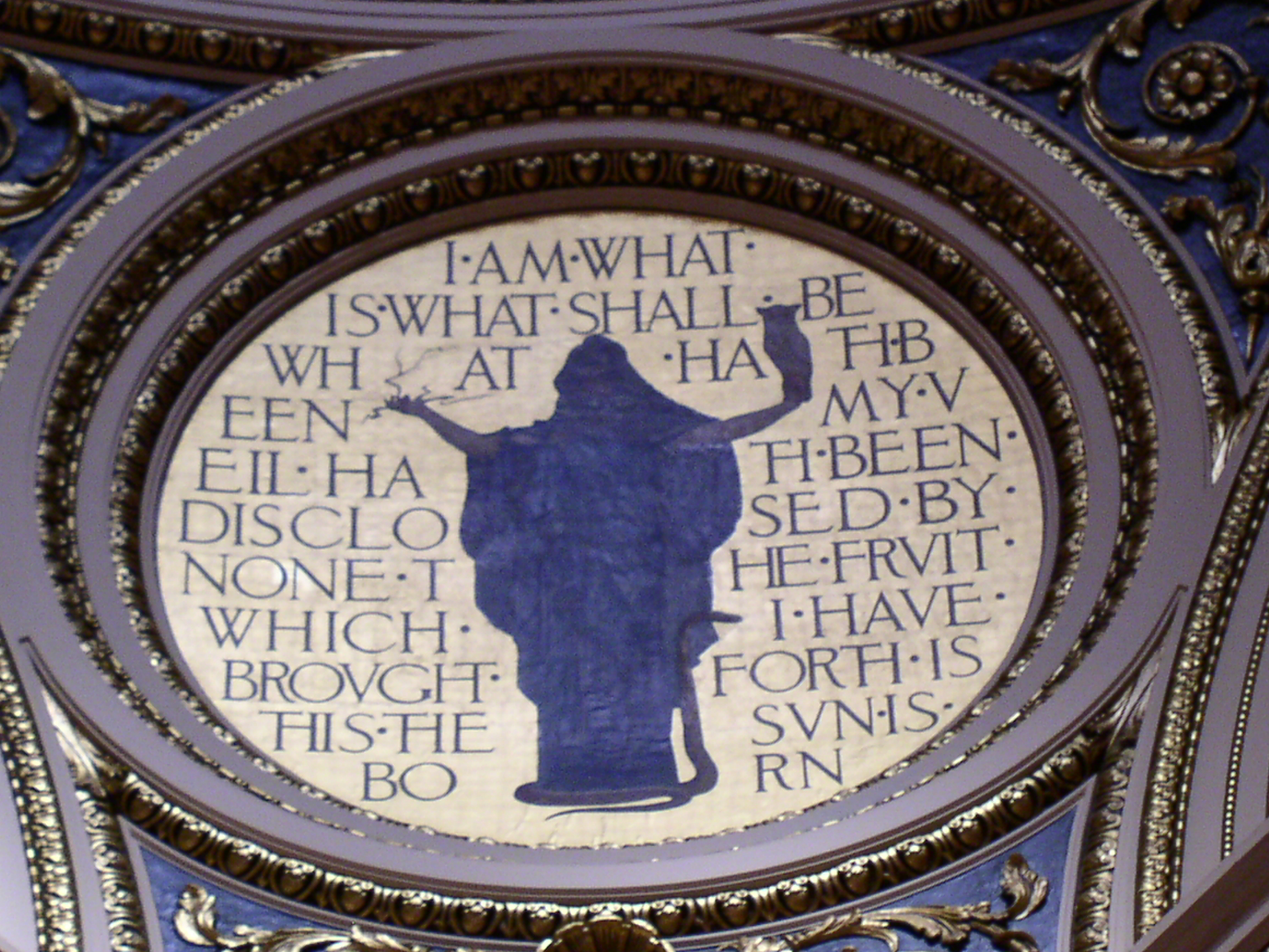 Allegorical figure of Science, by Edwin Austin Abbey. Rotunda of the Pennsylvania State Capitol, Harrisburg, Pennsylvania. Photo by Sensor, October 30, 2005.